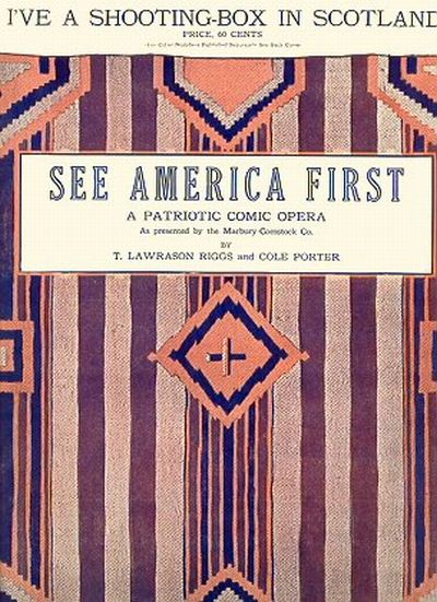 Sheet music for "I've a Shooting Box in Scotland" from the musical See America First (1916) by Cole Porter (book by T. Lawrason Riggs), published by G. Schirmer